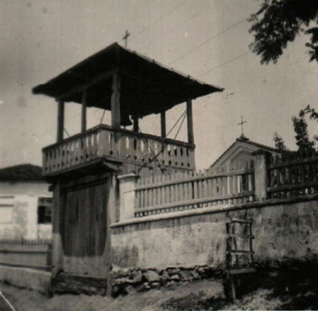 Church in Kalipetrovo, Bulgaria